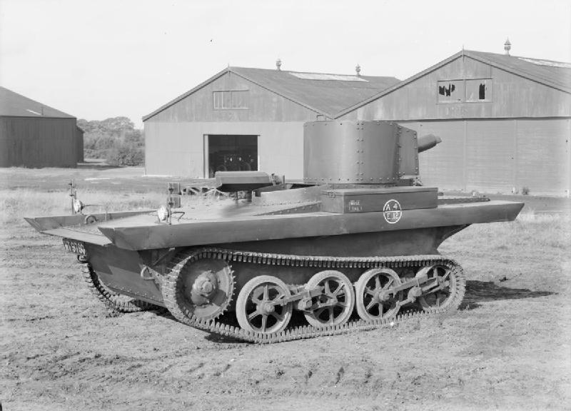 IWM caption : Vickers Light Amphibious Tank (A4E12 / L1E2). Although not adopted by the British Army, this tank saw service with the Chinese, Dutch forces in the East Indies, Thailand and Soviet Red Army. The USSR developed their own amphibious tank (T 37) from this design.